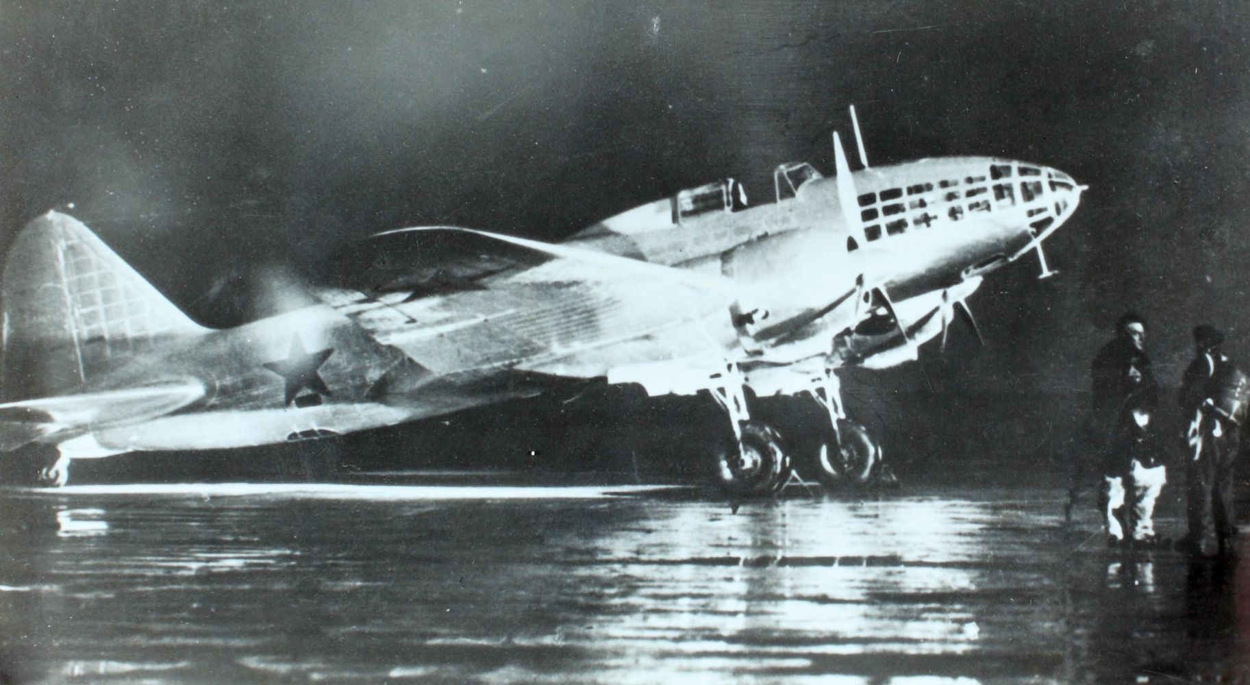 Catalog #: 15_002210 Title: Ilyushin Il-4 Date: 1937 Collection: Charles M. Daniels Collection Photo Album Name: Soviet Aircraft Page #: 4 Tags: Soviet Aircraft, Charles Daniels, PUBLIC COMMONS.SOURCE INSTITUTION: San Diego Air and Space Museum Archive